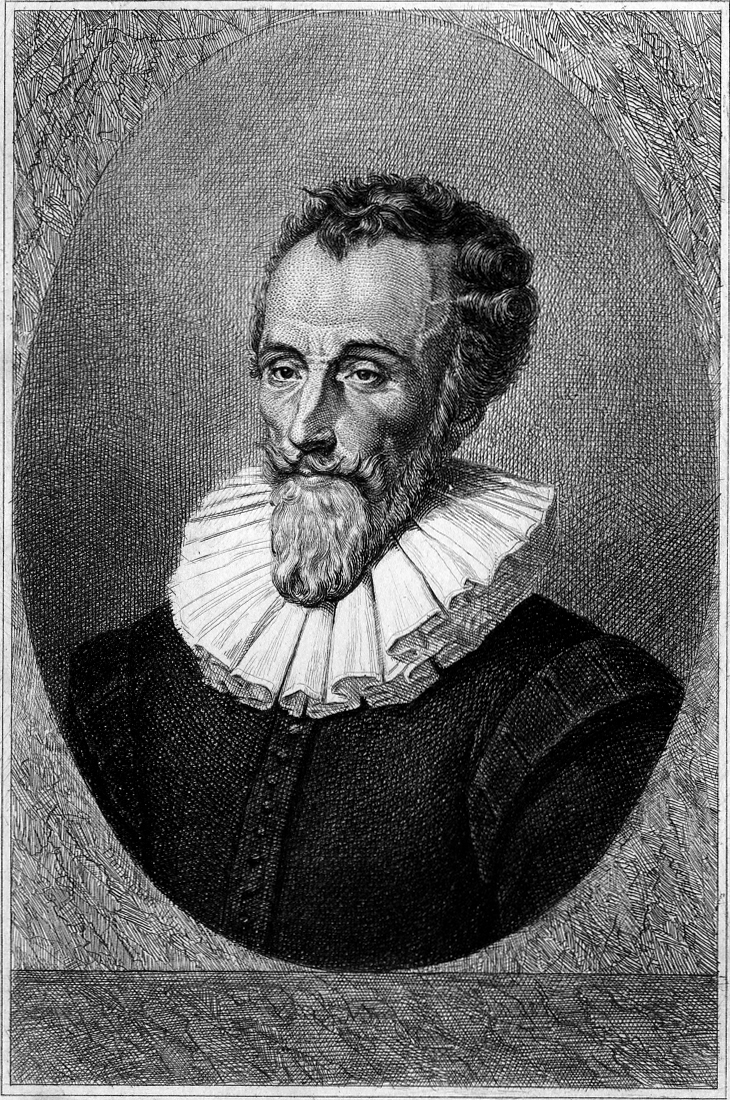 François de Malherbe (1555-1628), French poet, critic and translator.